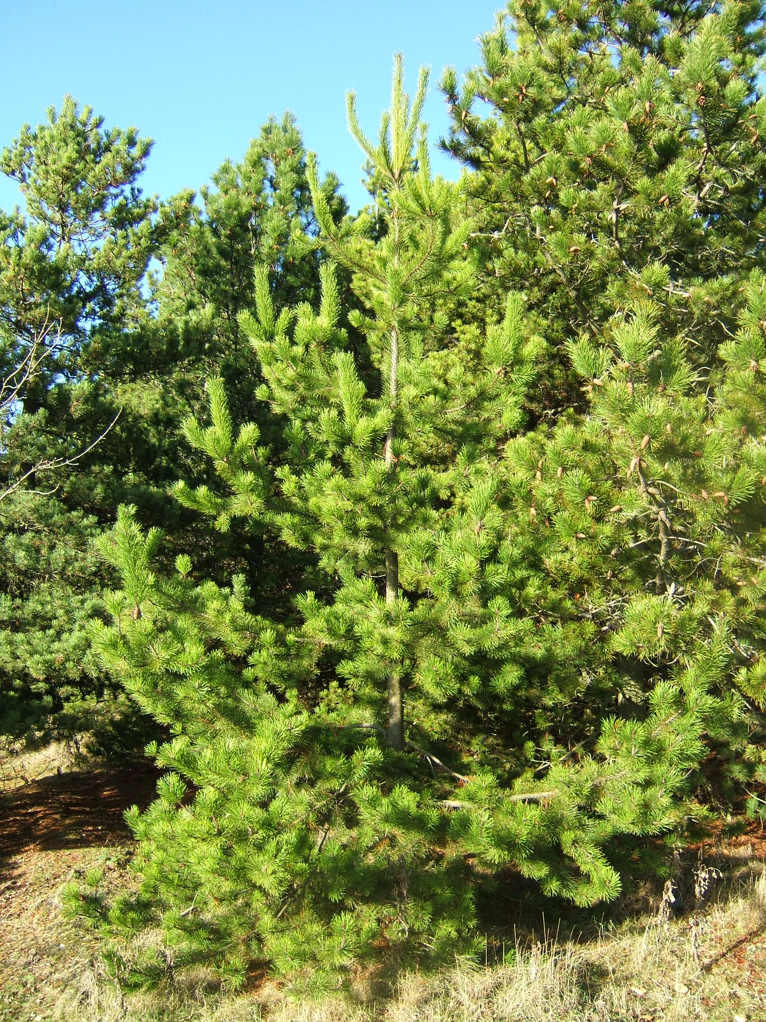 Pinus contorta subsp. contorta Naturalised trees, Swallow Pond, Wallsend, Northumberland; November 2005